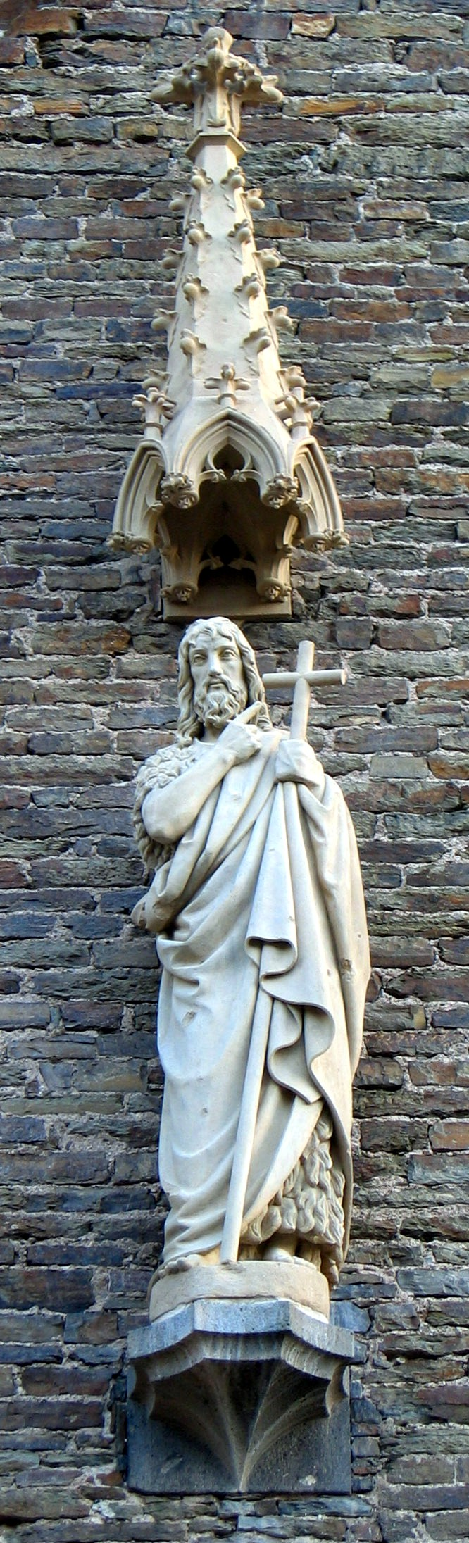 Church Johannes der Täufer, Treis-Karden, Germany: Sculpture of John the Baptist, Sandstone. Sculptor: Karl Hoffman, 1816-1872